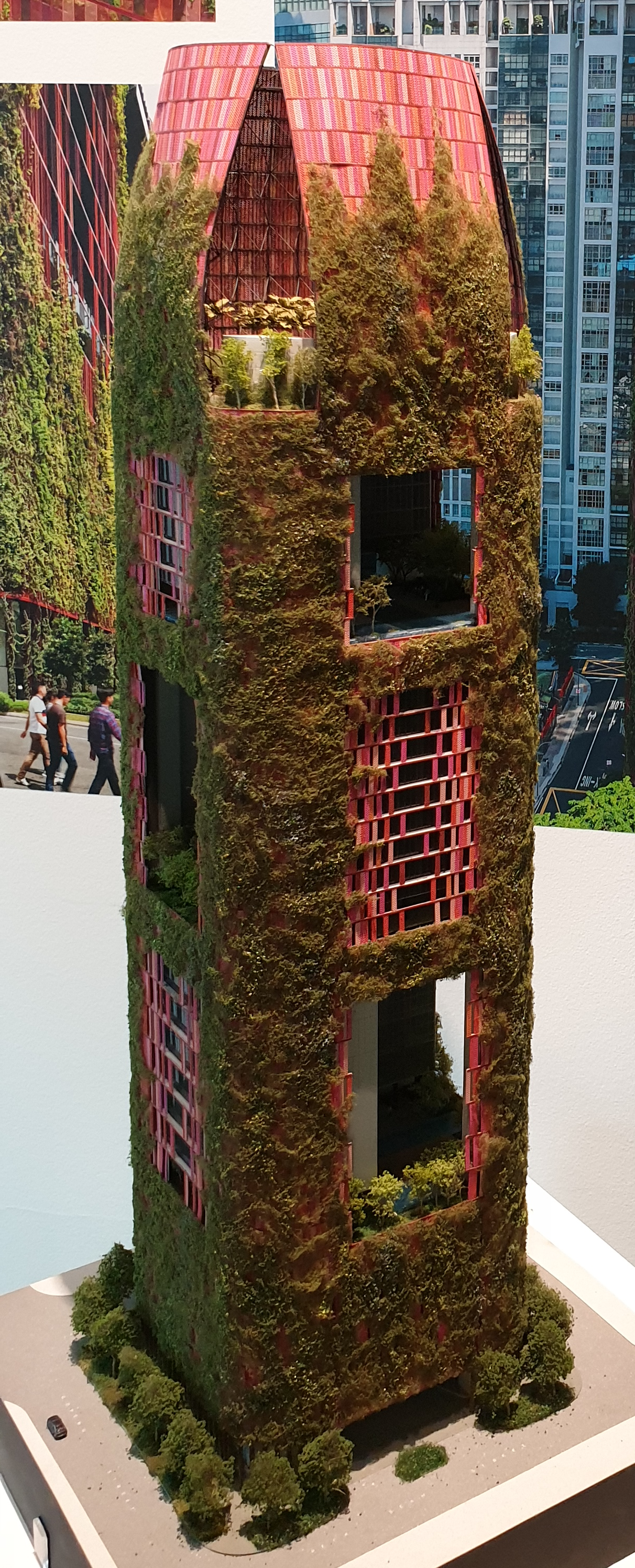 Oasia Hotel Downtown scale model exhibited at Roppongi Hills Mori Tower - Tokyo - Dec 2019